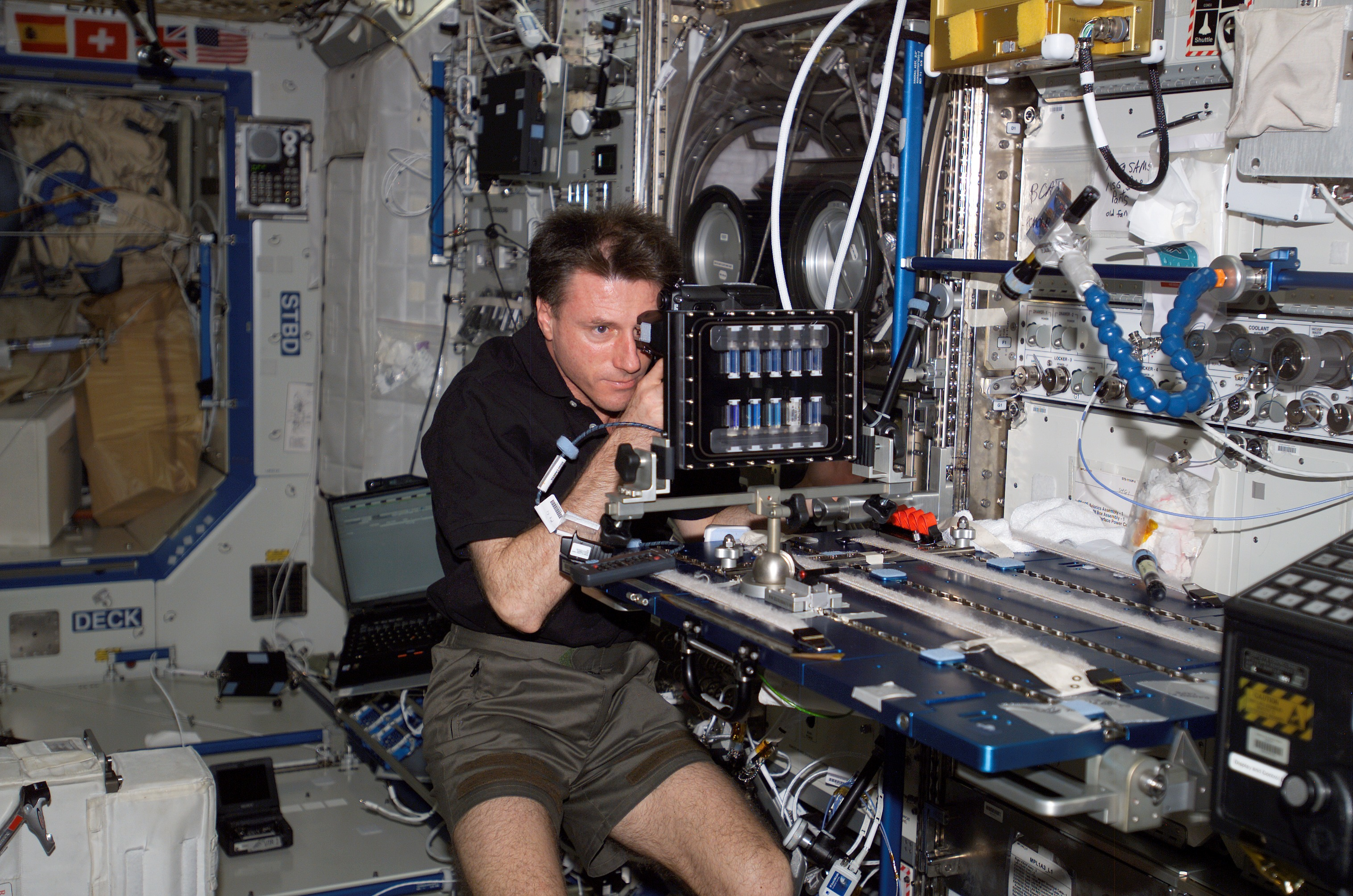 Expedition 8 Commander and Science Officer Michael Foale uses the Kodak 760 digital still camera to photograph a Slow Growth Sample Module for the Binary Colloidal Alloy Test-3 experiment. The SGMS is on a mounting bracket attached to the Maintenance Work Area table set up in the Destiny U.S. Laboratory. This image was used by the Expedition 8 crew at their post-flight presentation.